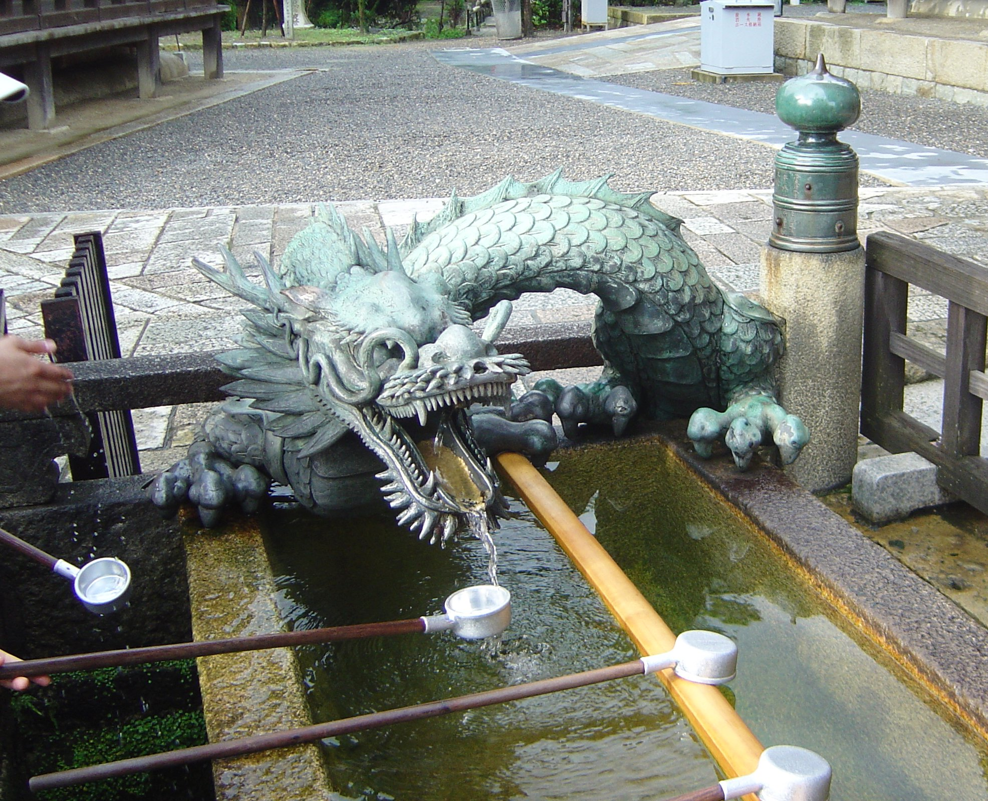 the dragon at Chōzuya , the water fountains for the purification of the faithful, at Kiyomizu-dera in Kyoto, Japan